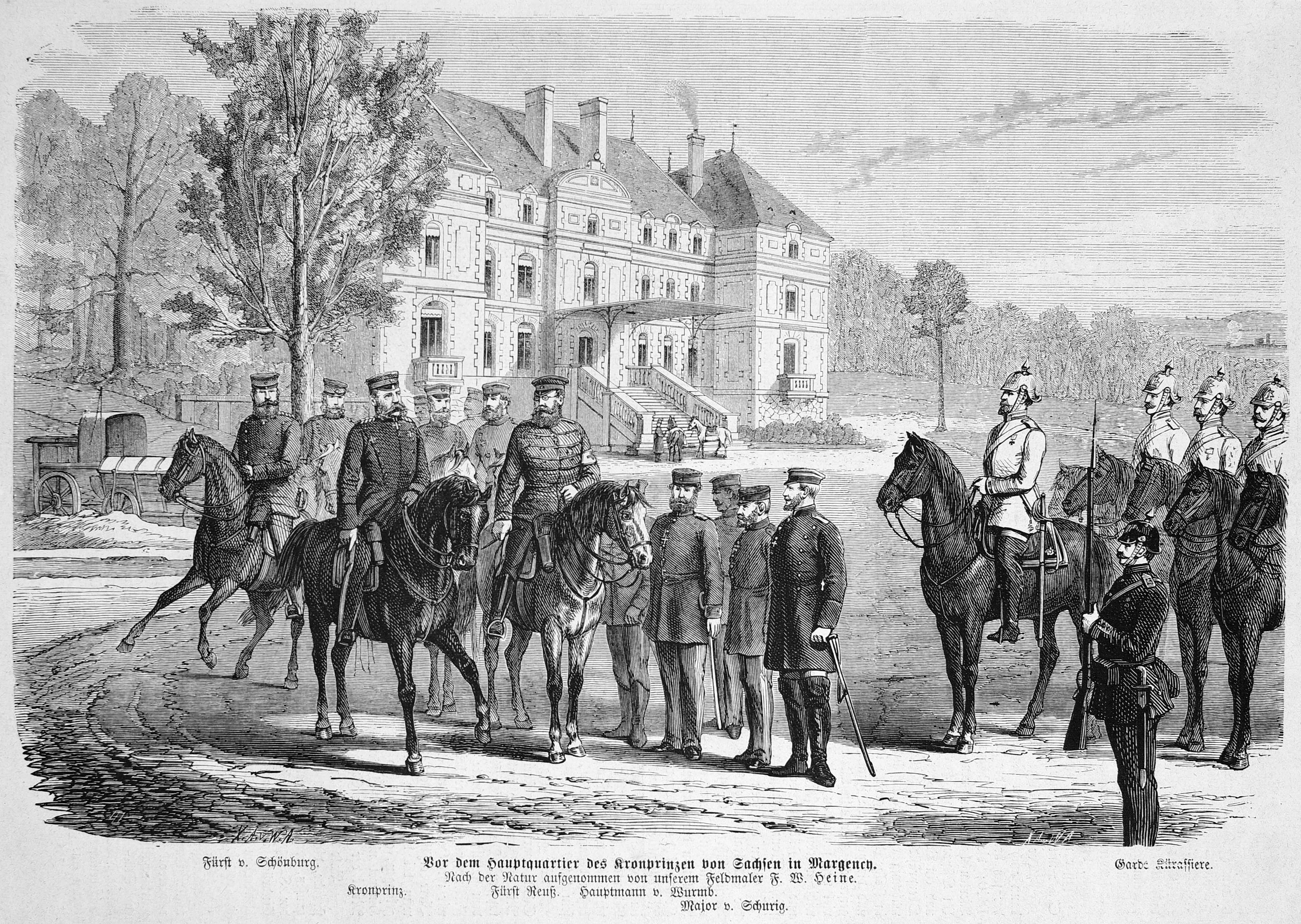 caption: "Vor dem Hauptquartier des Kronprinzen von Sachsen in Margency. Nach der Natur aufgenommen von unserem Feldmaler F. W. Heine. Fürst v. Schönburg. Kronprinz. Fürst Reuß. Hauptmann v. Wurmb. Major v. Schurig. Garde Kürassiere."